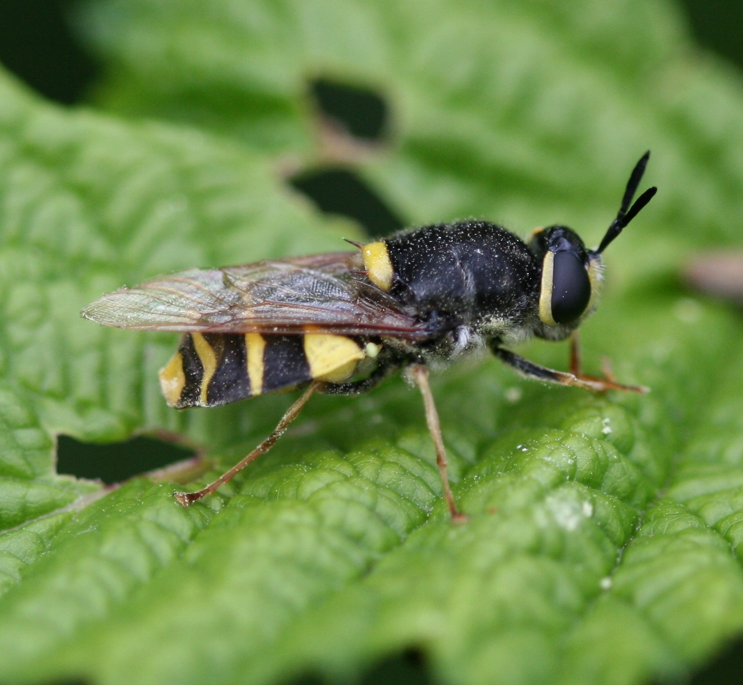 Taken in Humbie, East Lothian, Scotland. ID confirmed by Tim Ransom.